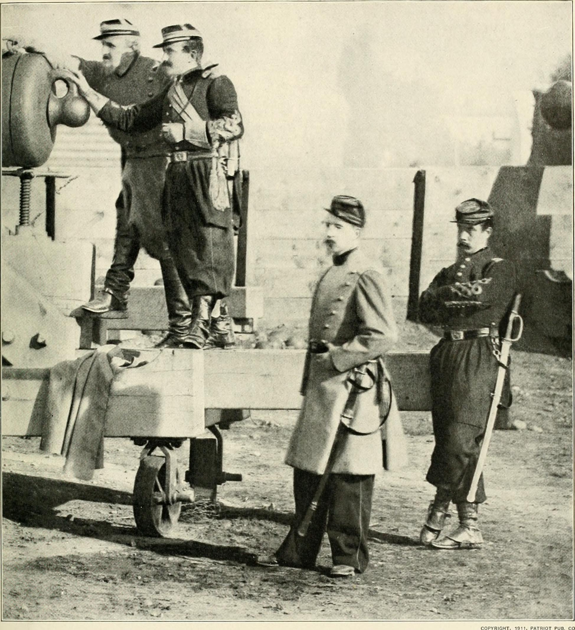 Title: The photographic history of the Civil War : thousands of scenes photographed 1861-65, with text by many special authorities Year: 1911 (1910s) Authors: Miller, Francis Trevelyan, 1877-1959 Lanier, Robert S. (Robert Sampson), 1880- Subjects: United States -- History Civil War, 1861-1865 Pictorial works United States -- History Civil War, 1861-1865 Publisher: New York : Review of Reviews Co. Text Appearing Before Image: ' Text Appearing After Image: OFFICERS OF THE RED-LEGGED FIFTY-FIFTH NEW YORK AT FORT GAINES, 18G1 Right royally did Washington welcome the Fifty-fifth New York Infantry, surnamed Garde de Lafayette in memory of that dis-tinguished Frenchmans services to our country in Revolutionary days, in September, 1861. The red-legged Fifth-fifth was or-ganized in New York City by Colonel Philip Regis de Trobriand (who ended the war as a brevet major-general of volunteers, a rankbestowed upon him for highly meritorious services during the Appomattox campaign) and left for Washington August 31st. TheFrench uniforms attracted much attention and elicited frequent bursts of applause as the crowds on Pennsylvania Avenue realizedonce again how many citizens from different lands had rushed to the defense of their common country. The Fifty-fifth accompaniedMcClellan to the Peninsula, and took part in the desperate assault on Maryes Heights at Fredericksburg, after which it was con-solidated, in four companies, with the Thirty-eighth